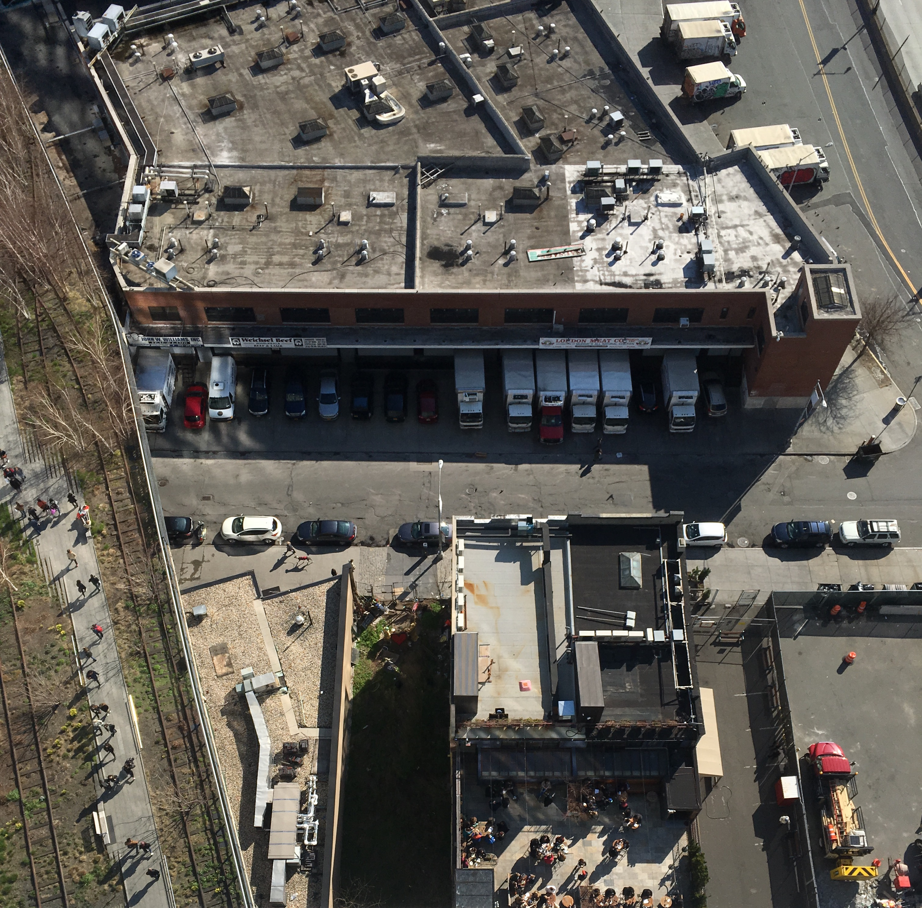 View from the rooftop of the The Standard, High Line on 10 April, 2016. To the left is the High Line, to the right is 11th Avenue, and front is Little West 12th Street with meatpacking plants.